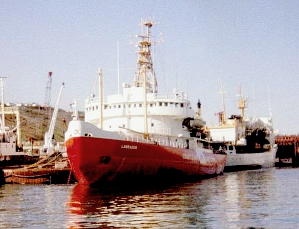 CCGS Labrador at St. John's Harbour, Newfoundland. The white vessel is CSS Baffin, an old Canadian hydrographic research ship.